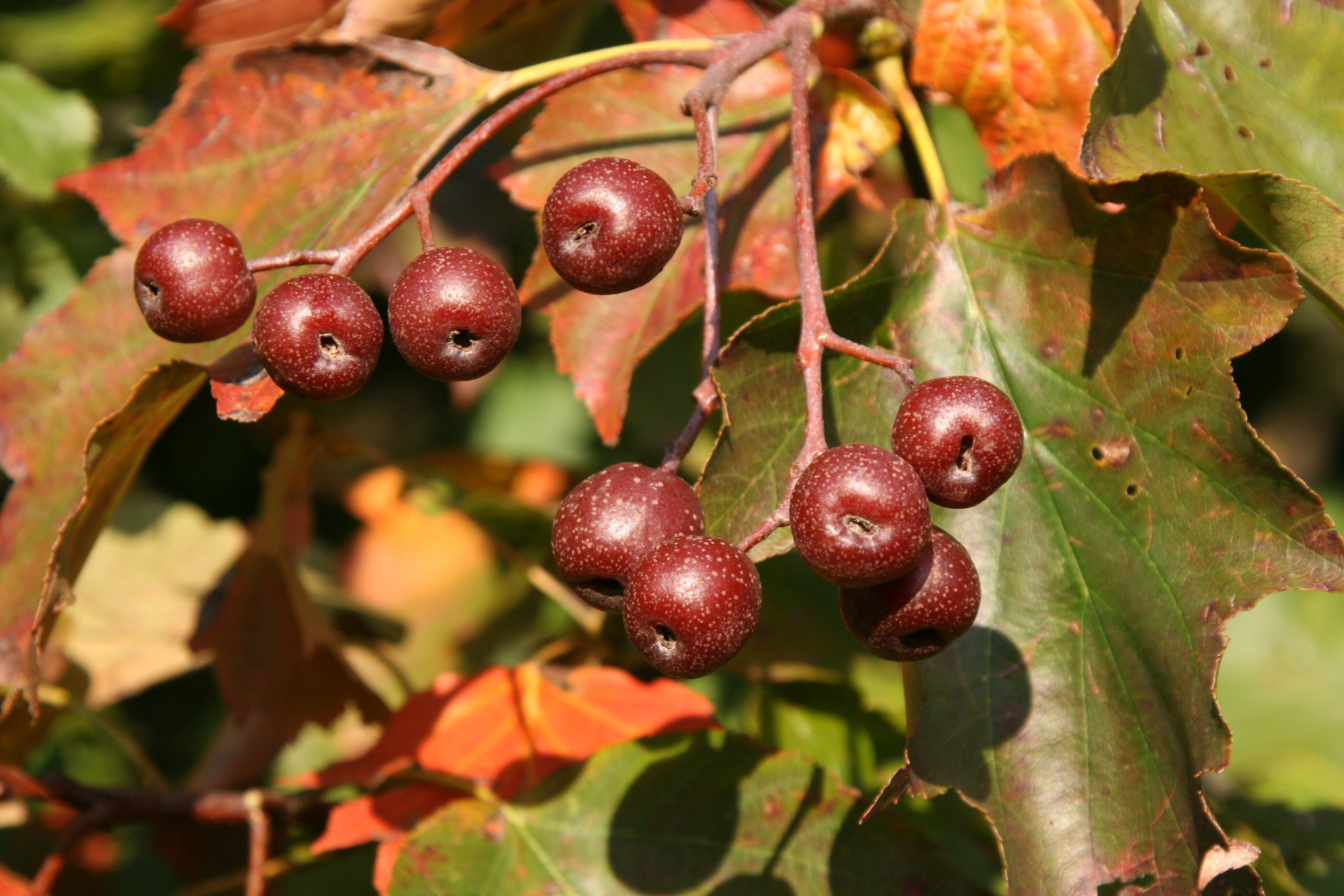 Fruit and leaves of a Wild Service Tree (Sorbus torminalis), photographed in Weinsberg